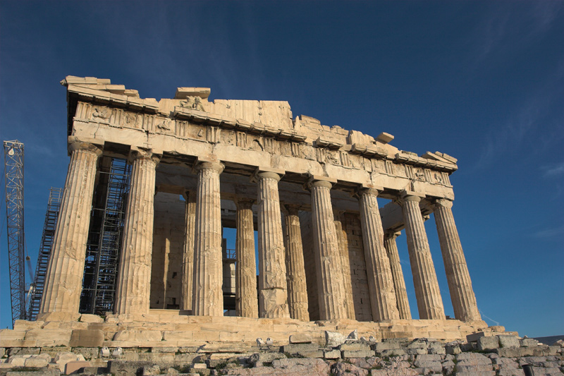 Parthenon from the west in the autumn of 2005. A little known fact: This photo is actually the rear of the structure. The front is on the reverse side of the buiding. The rear is most often what is photographed or seen in photographs.